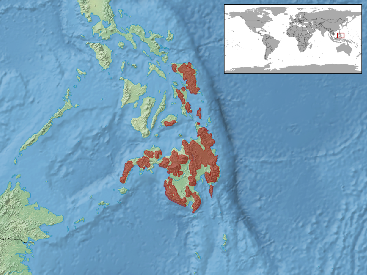 geographic distribution of Draco ornatus (Native: Philippines)